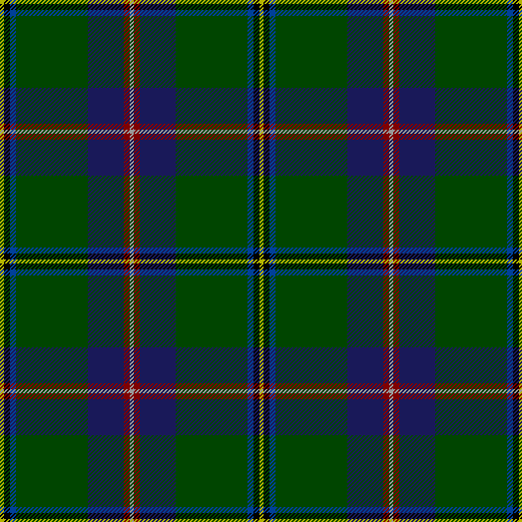 Official Washington State tartan in a 4 sett block, based on 1 sett tartan image released to public domain created by User:NealePickett, 28 August 2008 at Wikimedia Commons